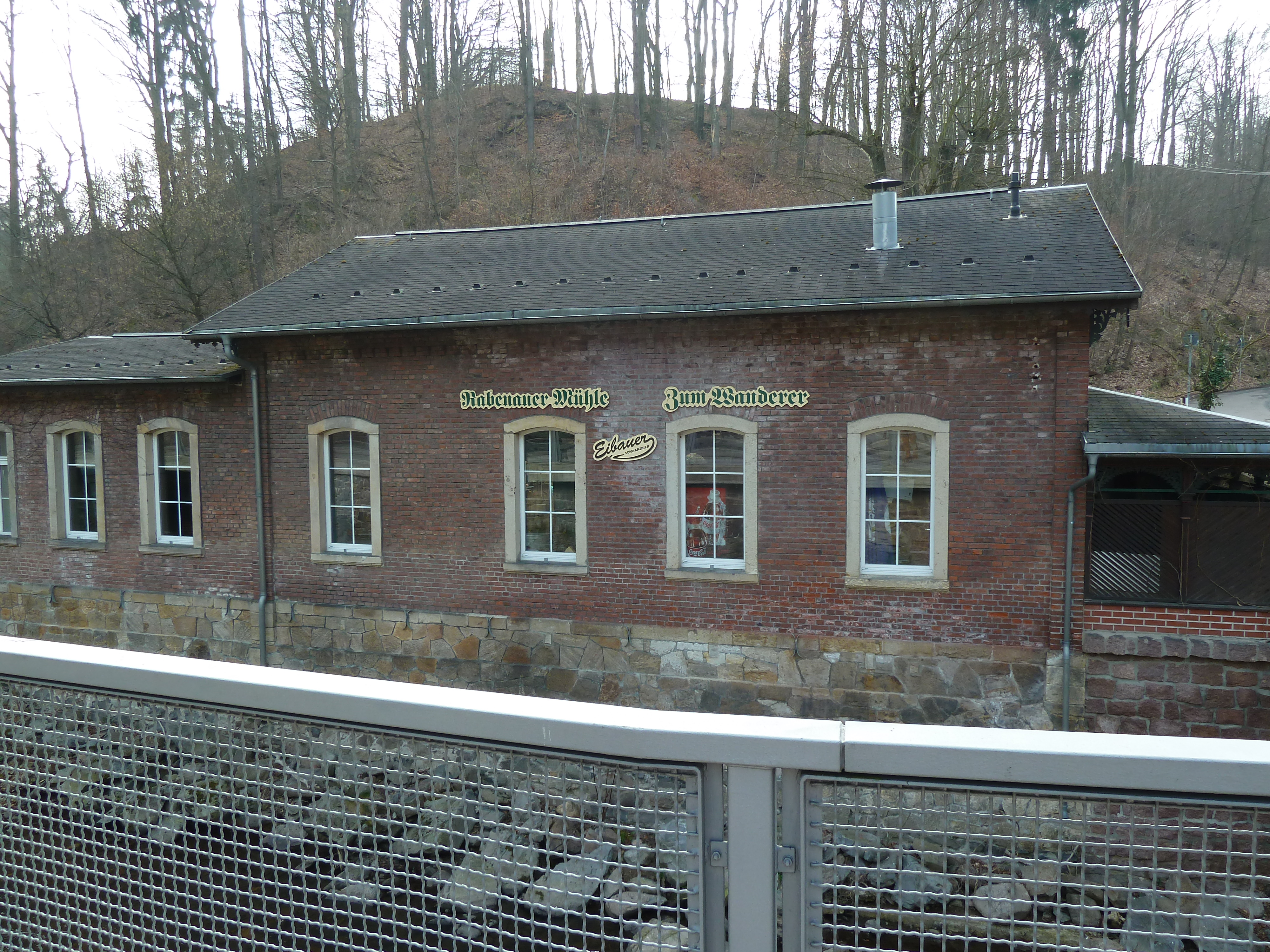 Rabenauer Mühle; first recorded as saw-mill of the noble Miltitz family in 1488. Licensed as restaurant in 1830. Wedding celebration of Helene Richter, daughter of Adrian Ludwig Richter in 1856. I In 1868 a wood pulp mill for fresh spruce is recorded as integrated part of the Hainsberg Paper Works. 1869 is the mill destroyed by fire and re-erected as Swiss style-restaurant and wood pulp mill. In 1872 Karl Ernst Hartig described the mill as follows: The mill was powered by an overshot water wheel. It had two sandstone grinding rollers, a presorting set of two sifting drums, a second set of grinding rollers for refining the wood fibers and a three-drum sifting set for post-sorting the fibers and a pulp press roller. With sufficient supply of water the mill was able to produce 1006 pounds of dry fibers within 24 hours. In 1882 the mill became connected with the railway system by the narrow-gauge Weisseritztalbahn. In 1994 the restaurant underwent a complete renovation; a new hotel was installed as well. In 2002 the premises were flooded and severely damaged, but repaired after a short interruption.